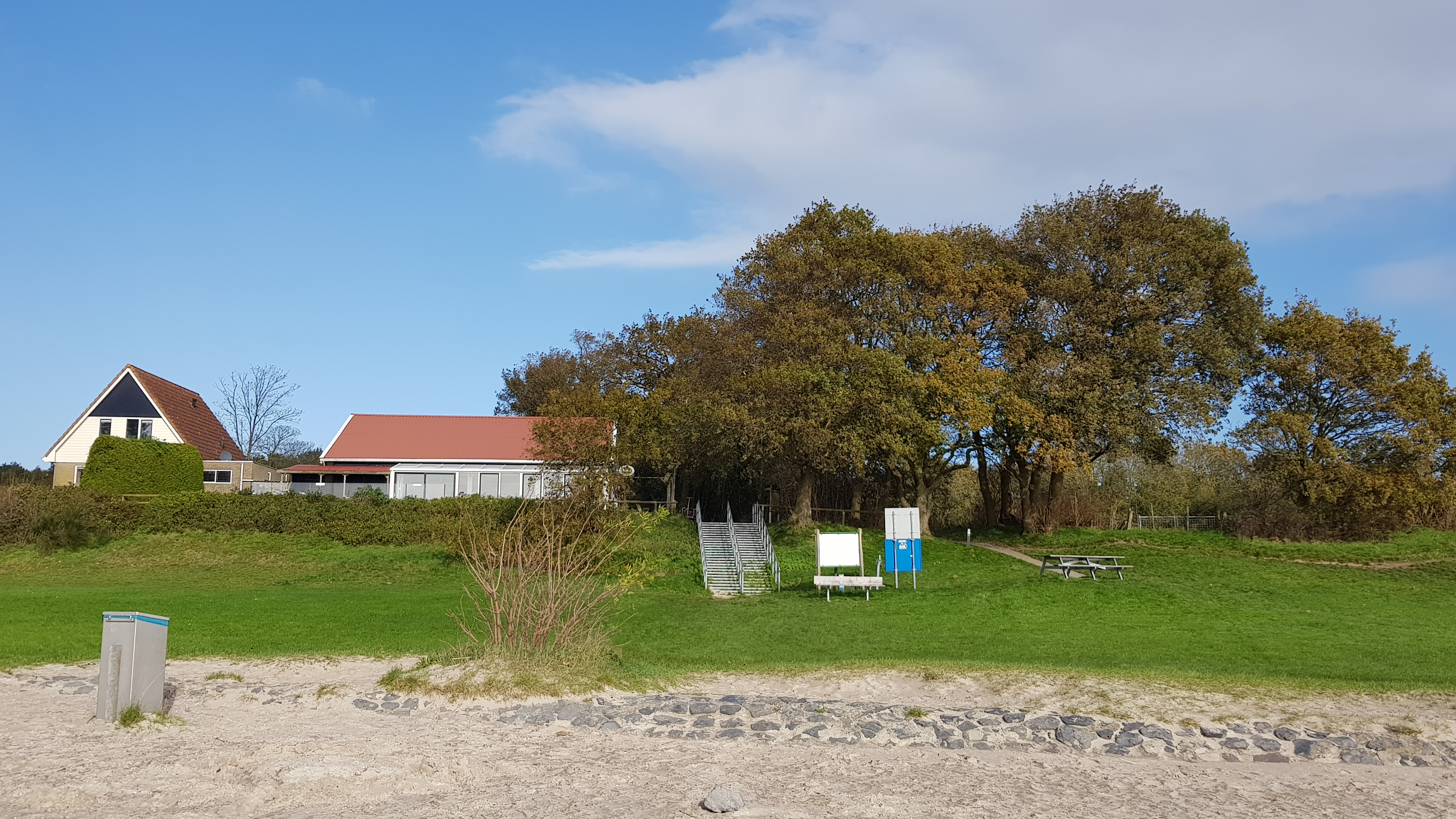 Mirnser Klif, Mirns, Netherlands